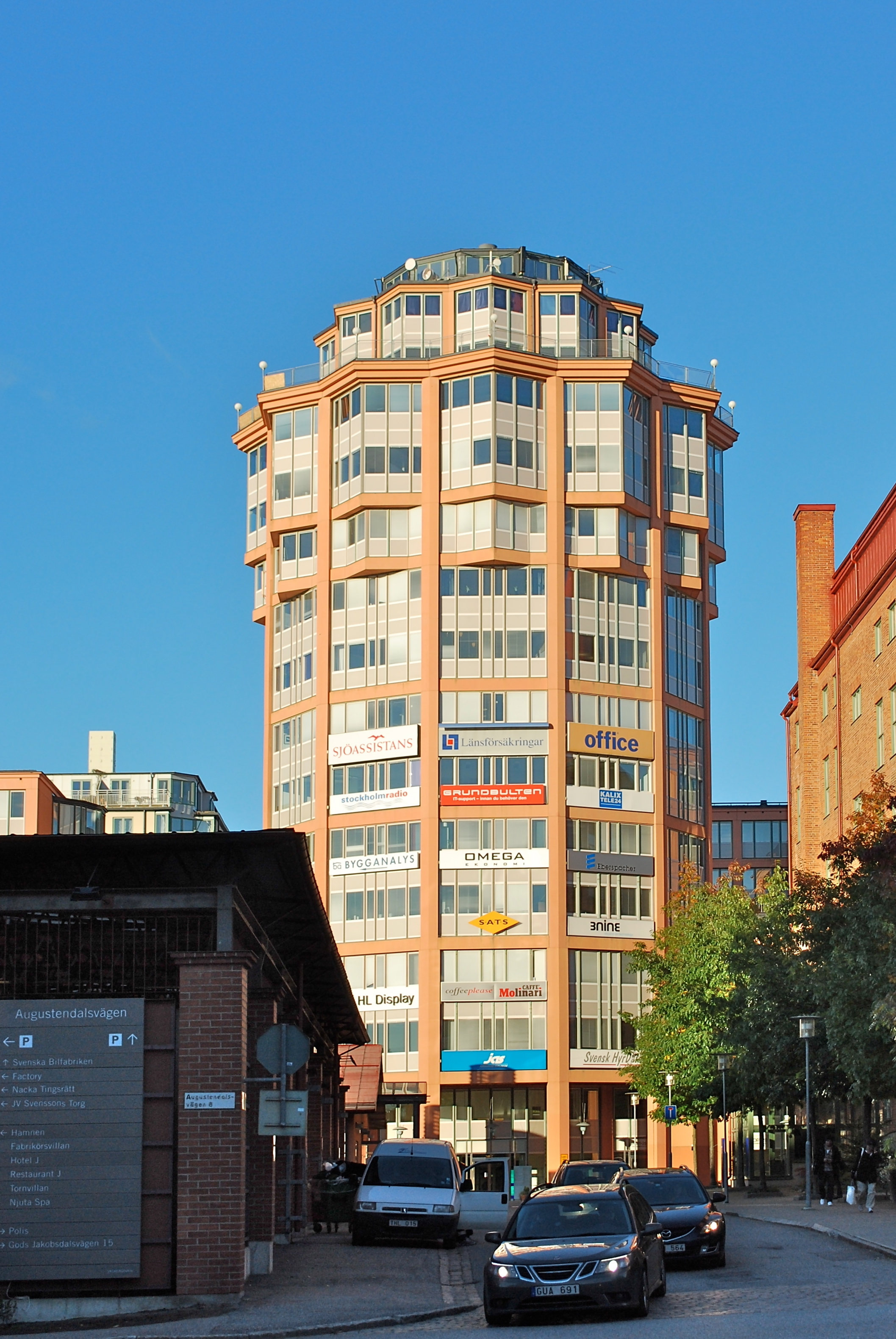 Office building in Nacka Strand. Architect: Carl Nyréns arkitekontor.